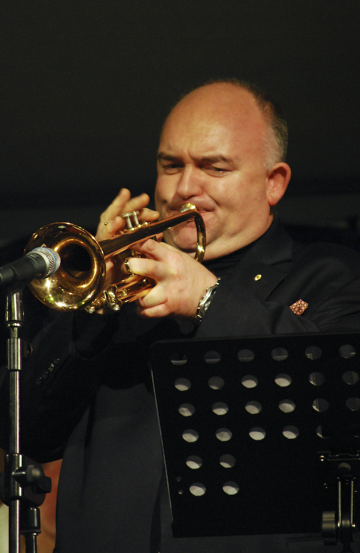 A Photo of James Morrison performing at the annual "generations in jazz" competition.